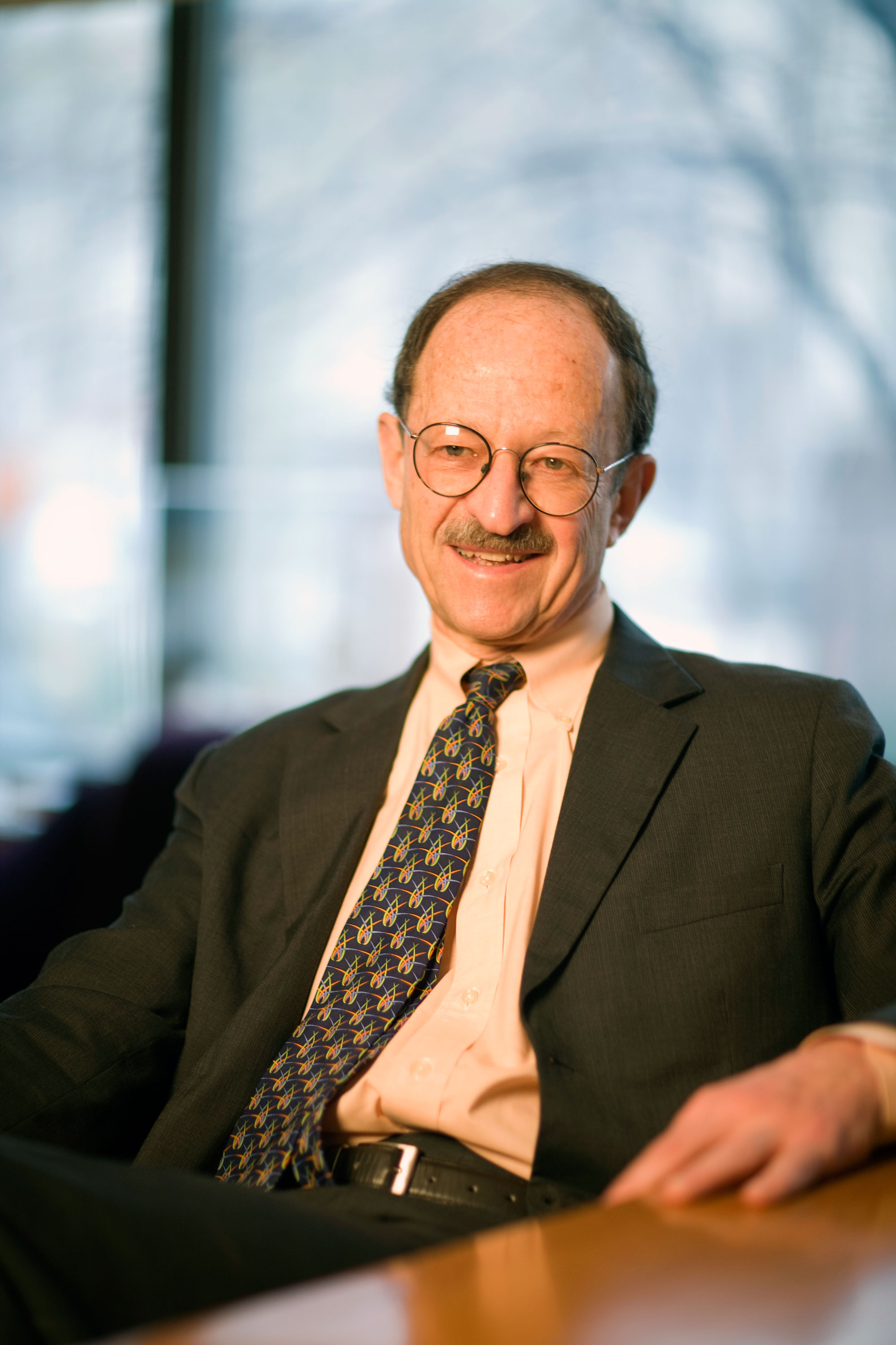 Title National Cancer Institute Director Harold E. Varmus Description Harold Varmus, Director, National Cancer Institute (2010). Topics/Categories National Cancer Institute, Directors Type Color, Photo Source Memorial Sloan-Kettering Cancer Center